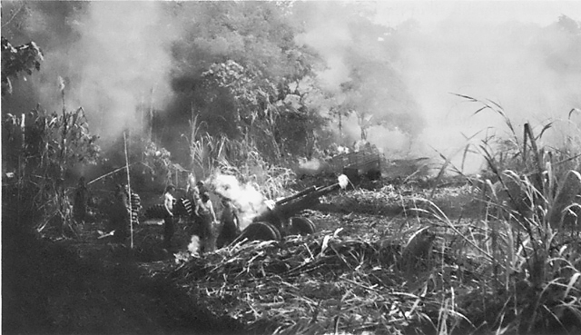 105mm Howitzers of 4/11, set up in a kunai grass clearing, fire in support of Marines attacking toward Cape Gloucester's airfields - Operation Dexterity